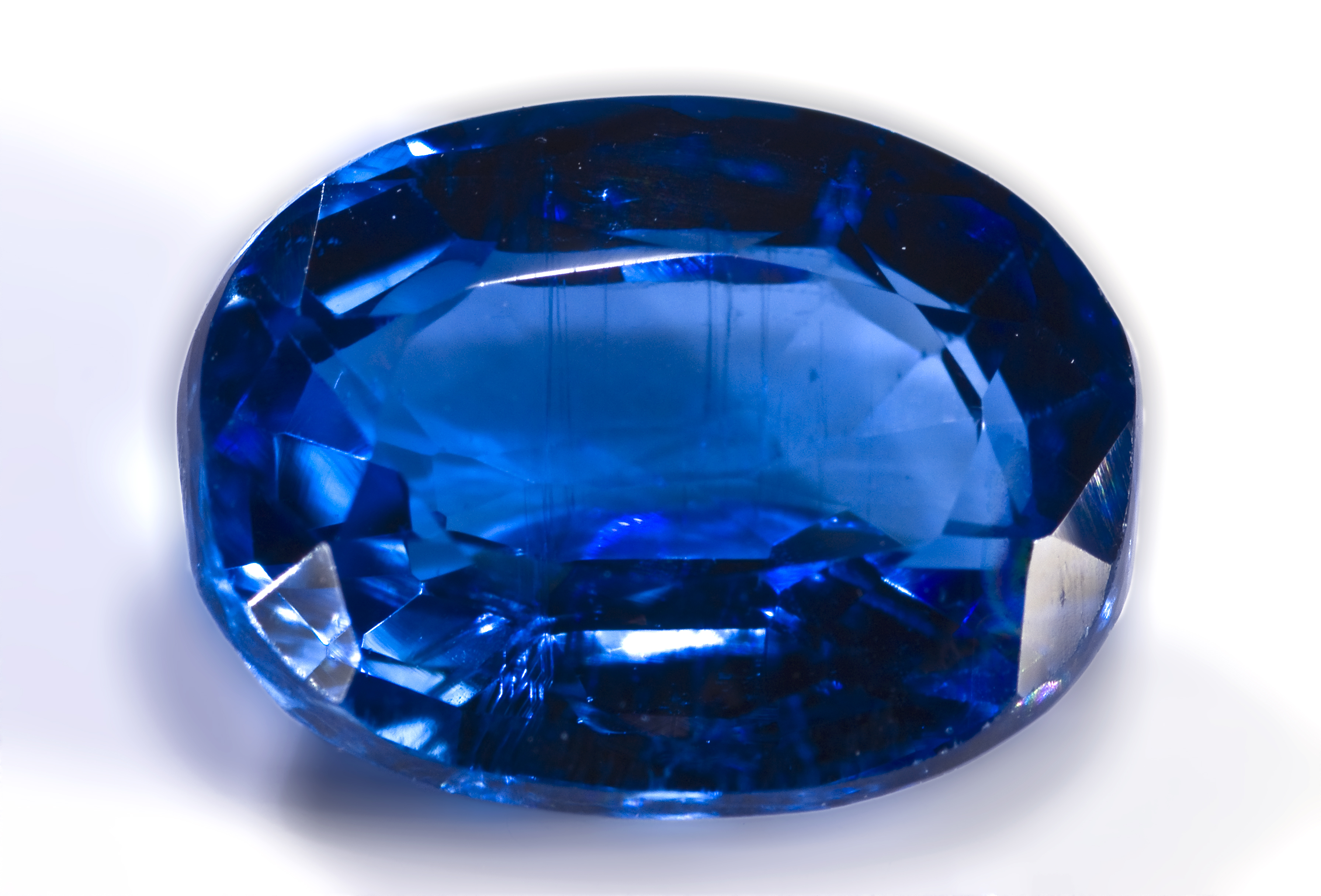 Kyanite Localité : Milka Danda (Milke Danda), Phakuwa, Sankhuwasabha District (Sankhuwa Sahba), Kosi Zone, Nepal